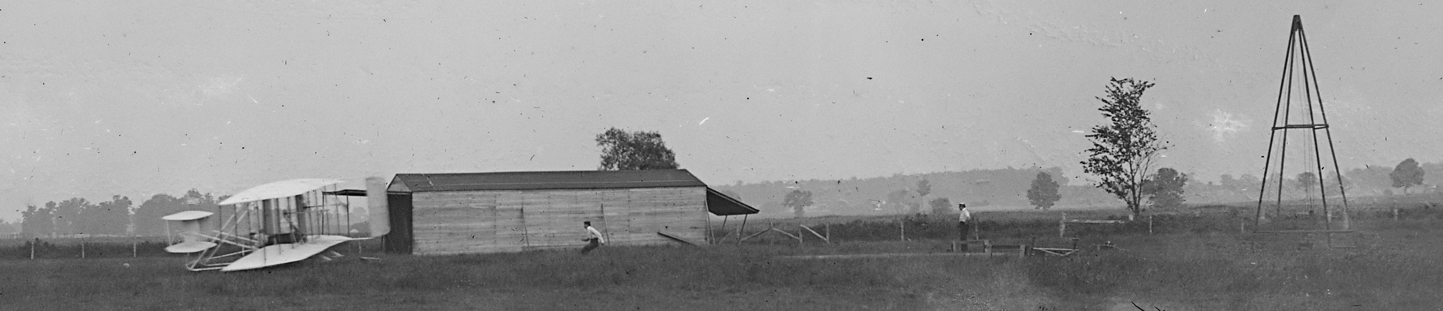 Title: Start of the first flight of 1905, Orville Wright at controls of the machine, near the hangar at Huffman Prairie. The two figures in the center are probably Wilbur Wright and Charles E. Taylor. The catapult launching device appears for the first time in a photograph. Title based on: Wilbur & Orville Wright, pictorial materials: a documentary guide / Arthur G. Renstrom. Washington: Library of Congress, 1982, p. 59.